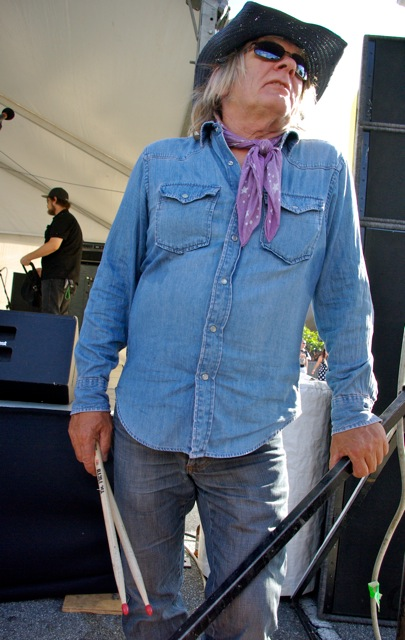 James Baker at the 2011 Beaufort Street Festival